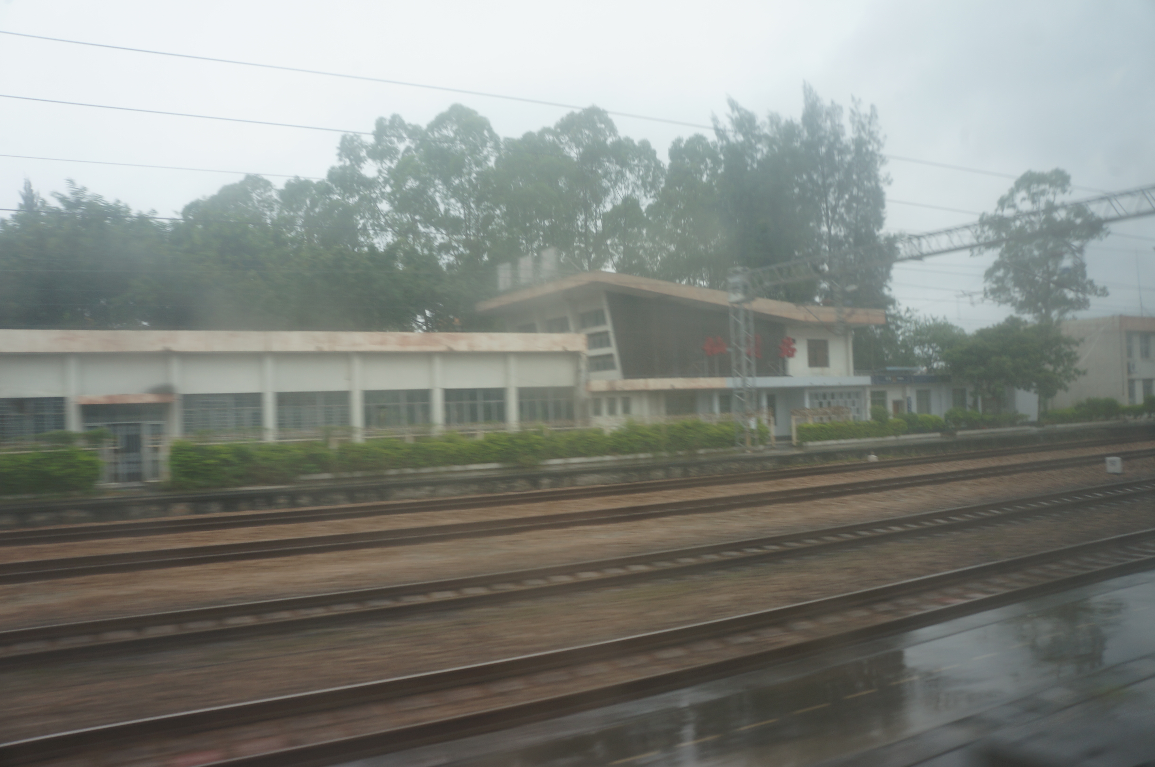 201609 Main building of Xiancun Station